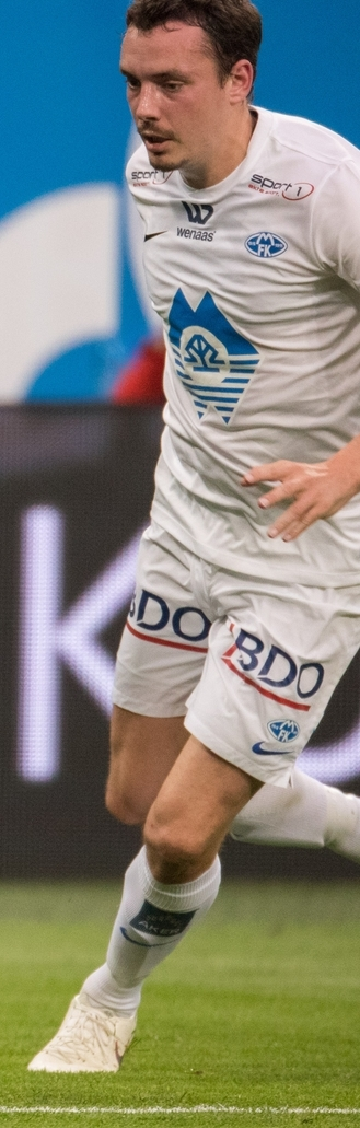 23.08.2018. Россия, Санкт-Петербург, стадион «Санкт-Петербург». Лига Европы УЕФА 2018/19, «Зенит» — «Мольде».